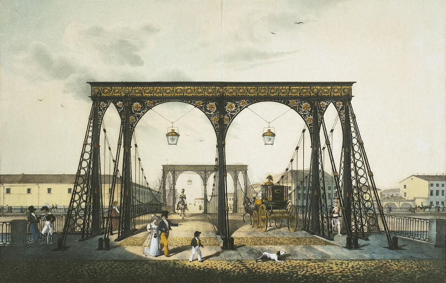 View of the Chain Panteleimonovsky Bridge across the Fontanka River. Colored lithography of Karl Beggrov by drawing of Wilhelm von Tretter, 1824.